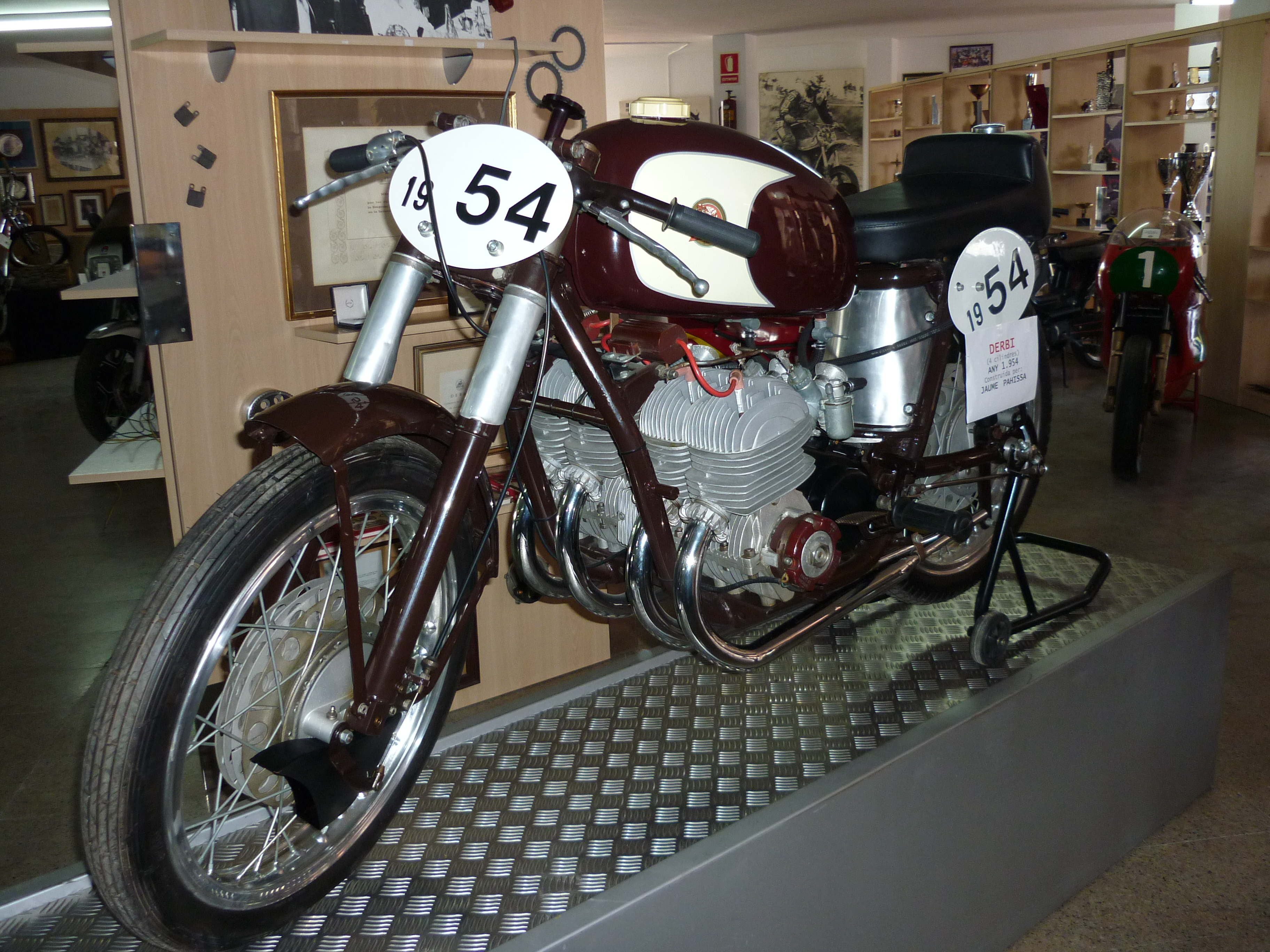 Derbi 4 cylinders 392cc (made by Jaume Pahissa in 1954). Isern Motorcycle Museum, Mollet del Vallès (Catalonia).